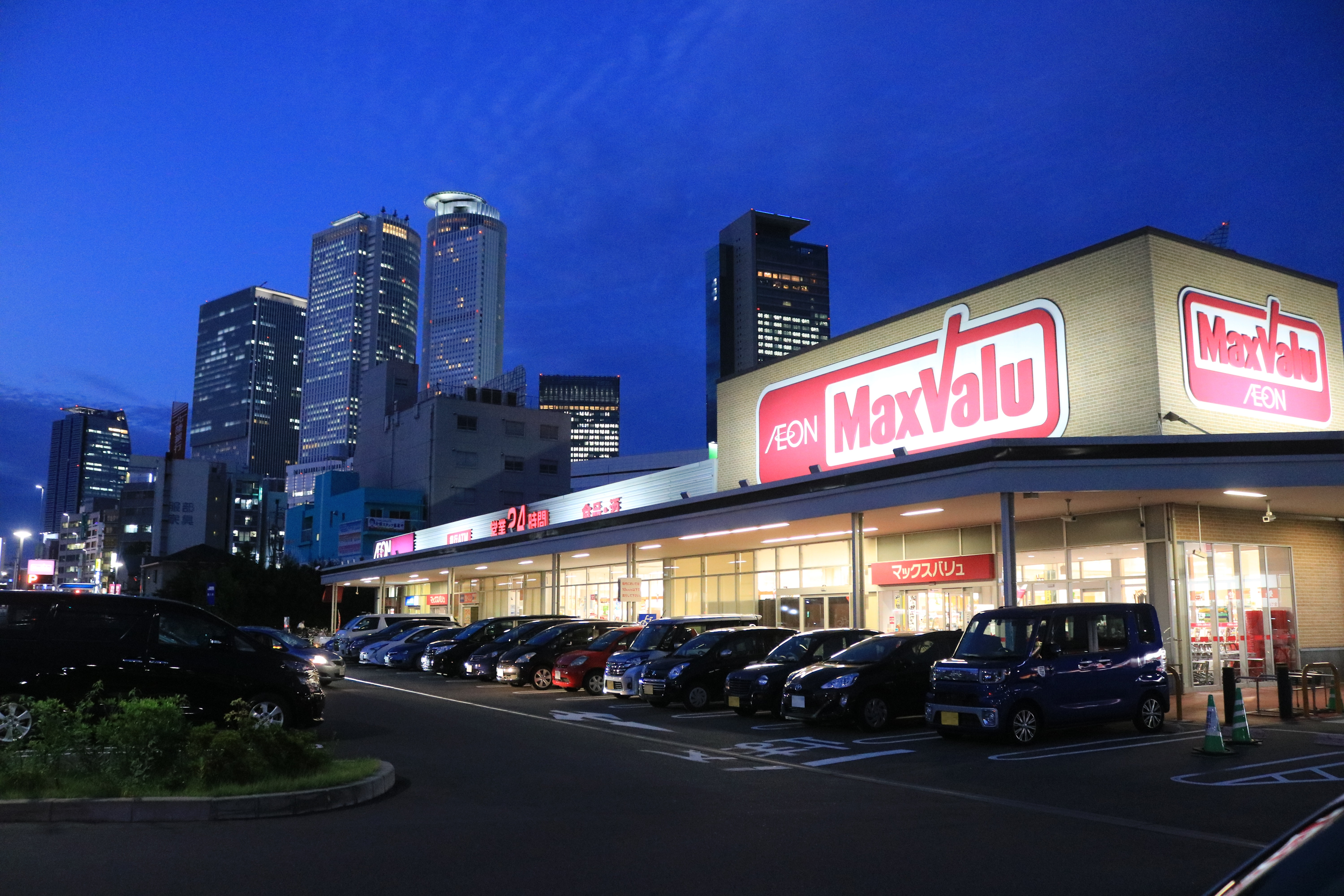 MaxValu Taiko in Nakamura-ku, Nagoya, Aichi prefecture, Japan.